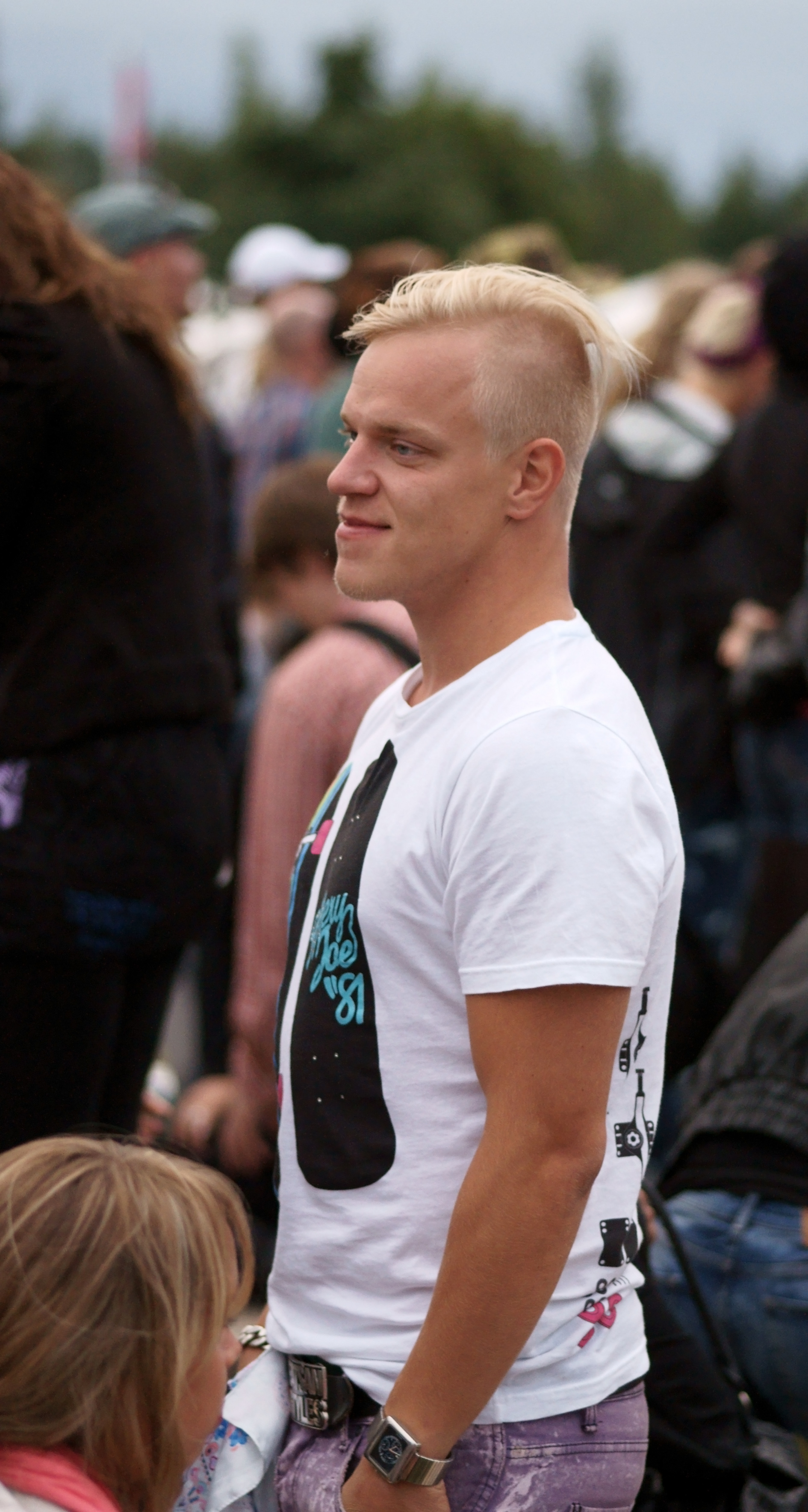 DJ Control (Jaakko Manninen) from Beats and Styles in Pori Jazz.